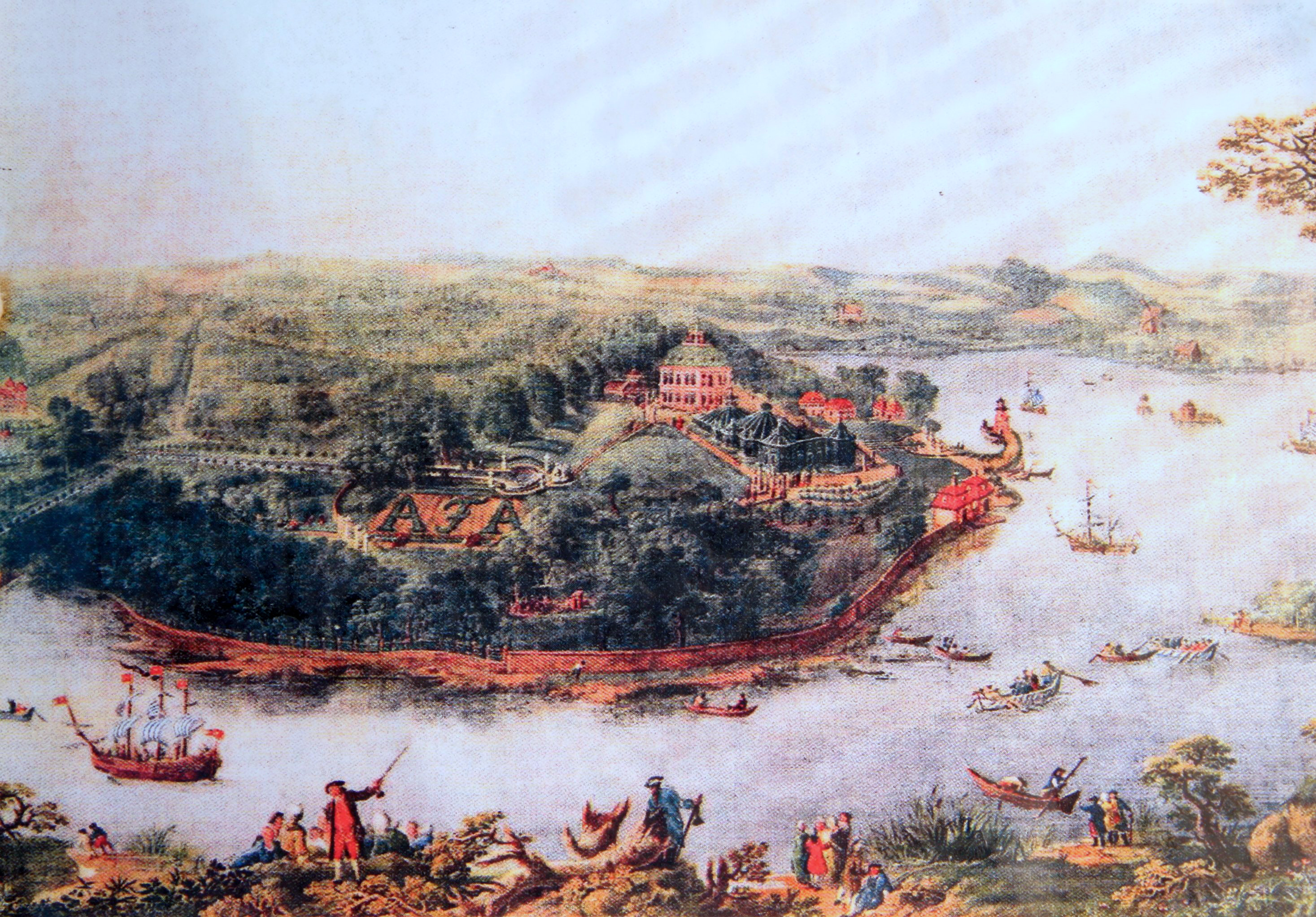 Little Pheasant Castle, drawing around 1790